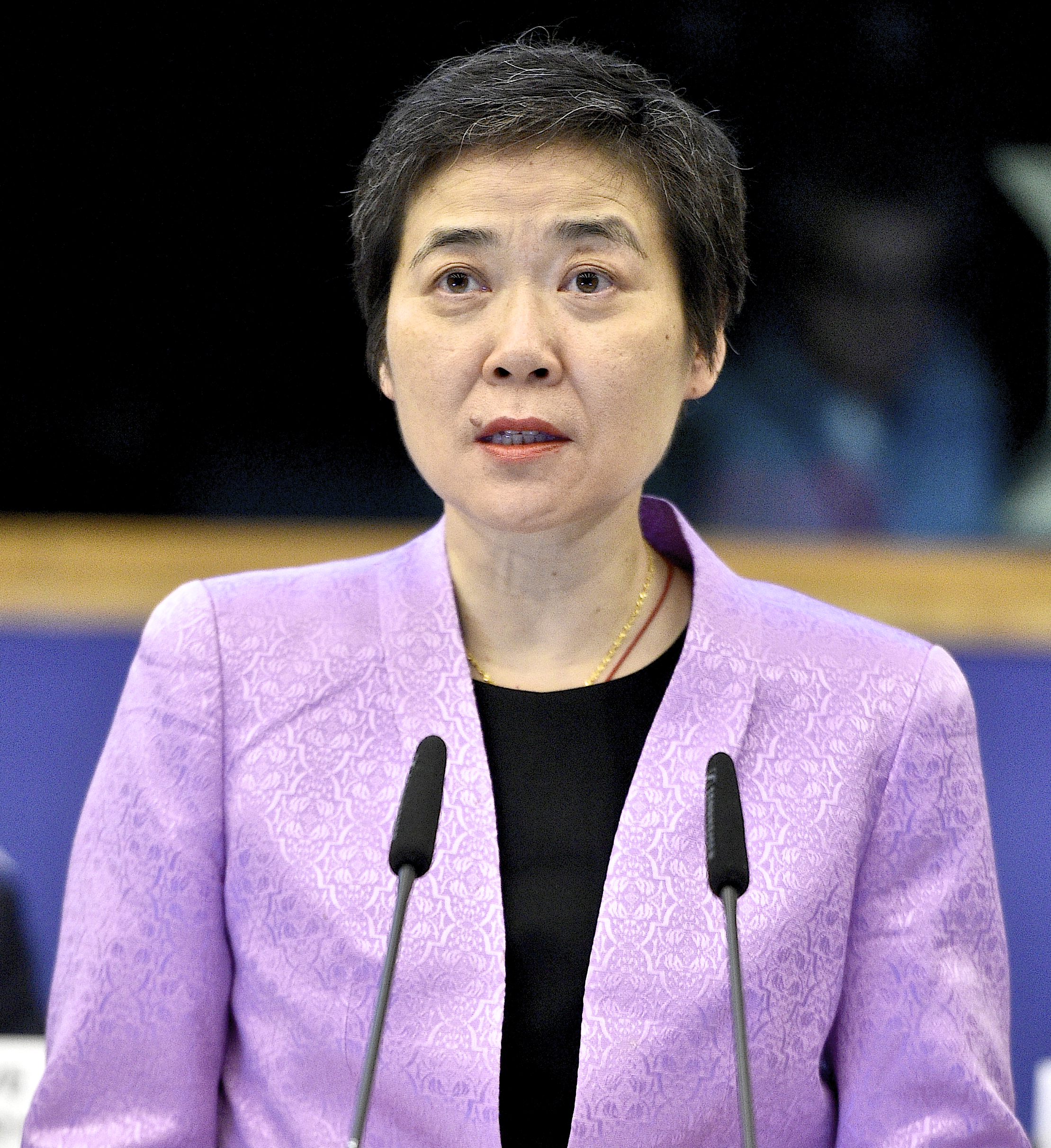 ECAC-CEAC 36th Plenary (triennial) Session of the European Civil Conférence, Strasbourg 10/11 July 2018.